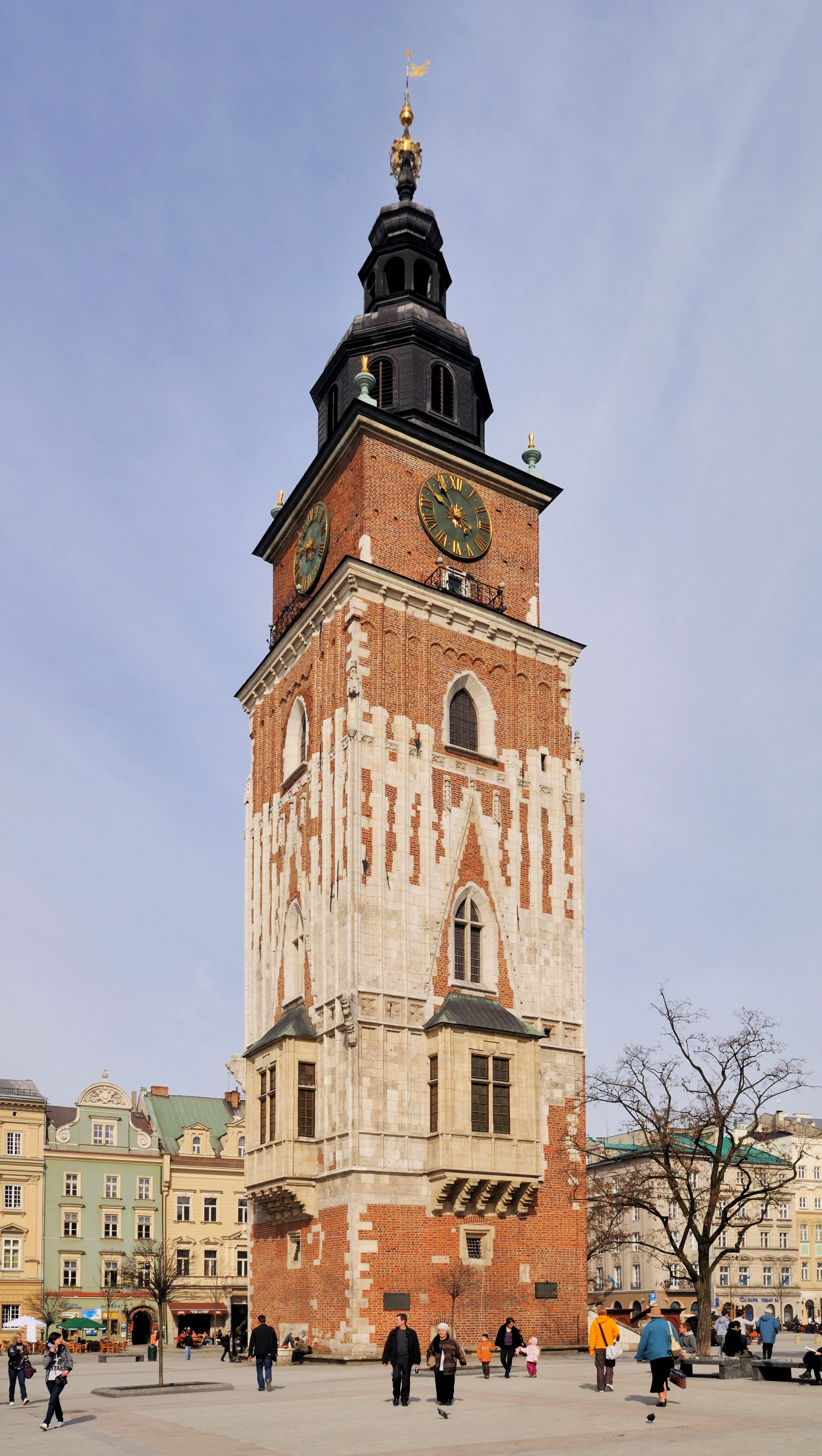 Town Hall Tower, Kraków